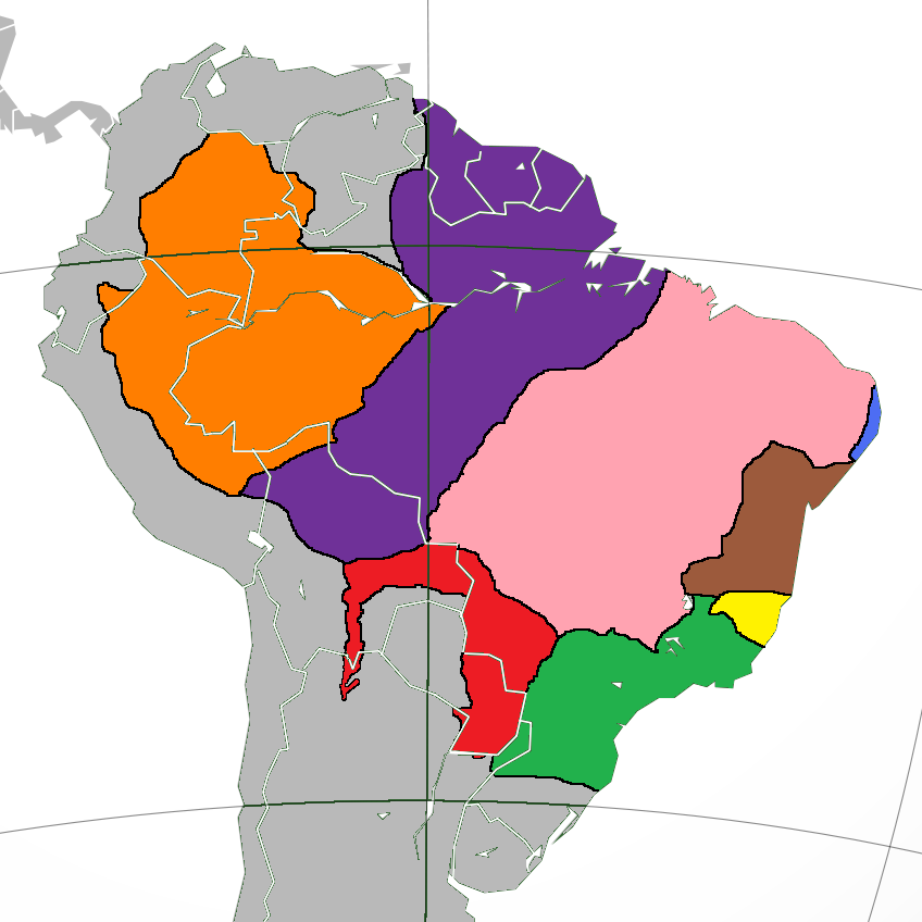 Genus Sapajus: distribution of species. Violet: Sapajus apella (Syn. Cebus apella) Red: Sapajus cay (Syn. Cebus cay) Blue: Sapajus flavius (Syn. Cebus flavius) Pink: Sapajus libidinosus (Syn. Cebus libidinosus) Orange: Sapajus macrocephalus (Syn. Cebus apella macrocephalus) Green: Sapajus nigritus (Syn. Cebus nigritus) Yellow: Sapajus robustus (Syn. Cebus nigritus robustus) Brown: Sapajus xanthosternos (Syn. Cebus xanthosternos)